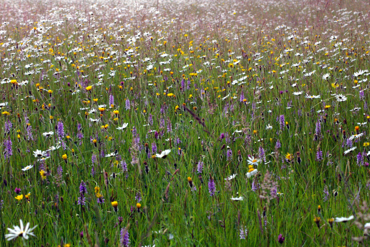 What fields used to look like before intensive farming and grass monocultures. Orchids compete with Ox Eye Daisies. Pentwyn Farm is a Gwent Wildlife Trust Reserve.